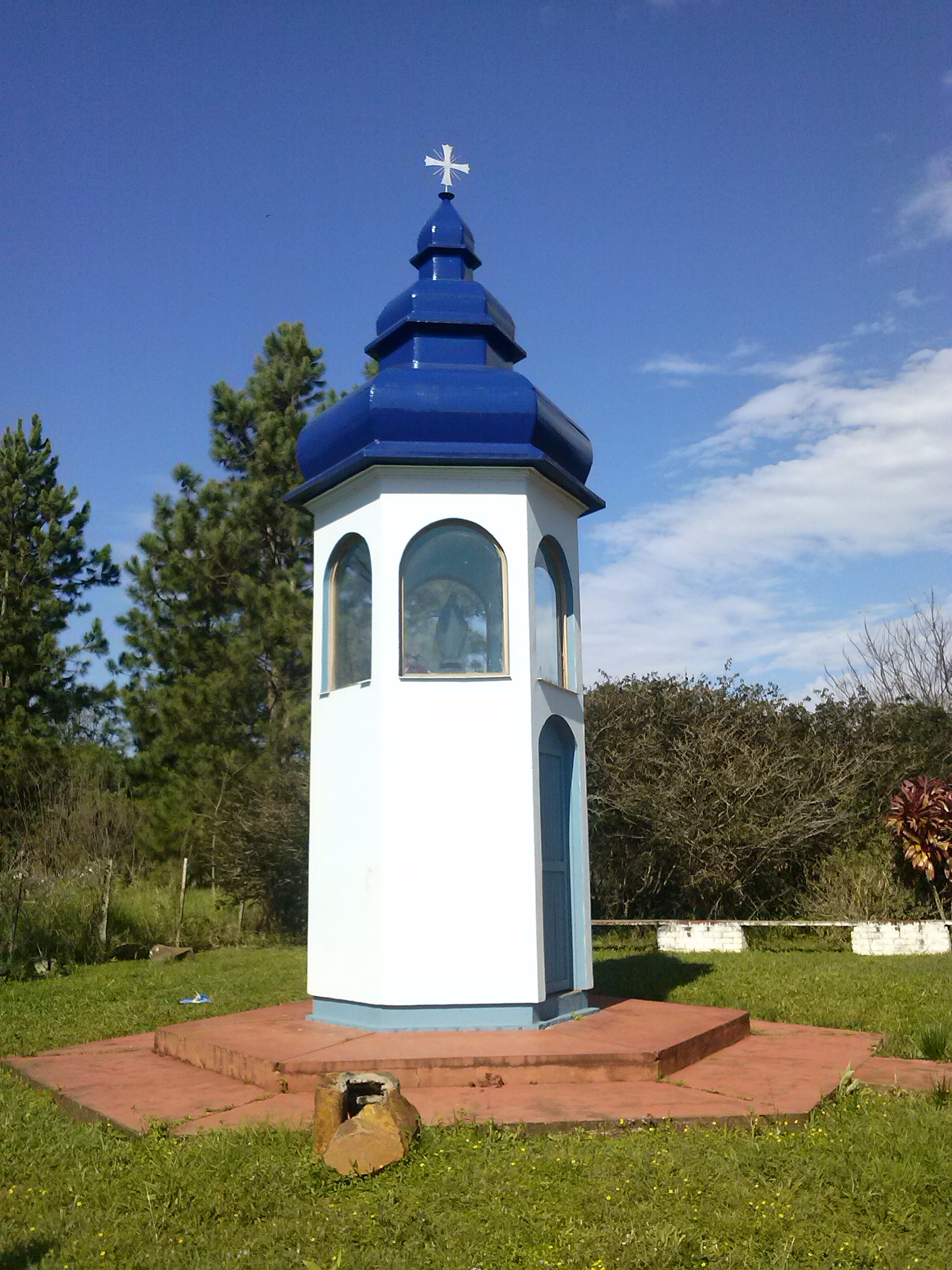 Ukrainian tower in Misiones Province, Argentina.